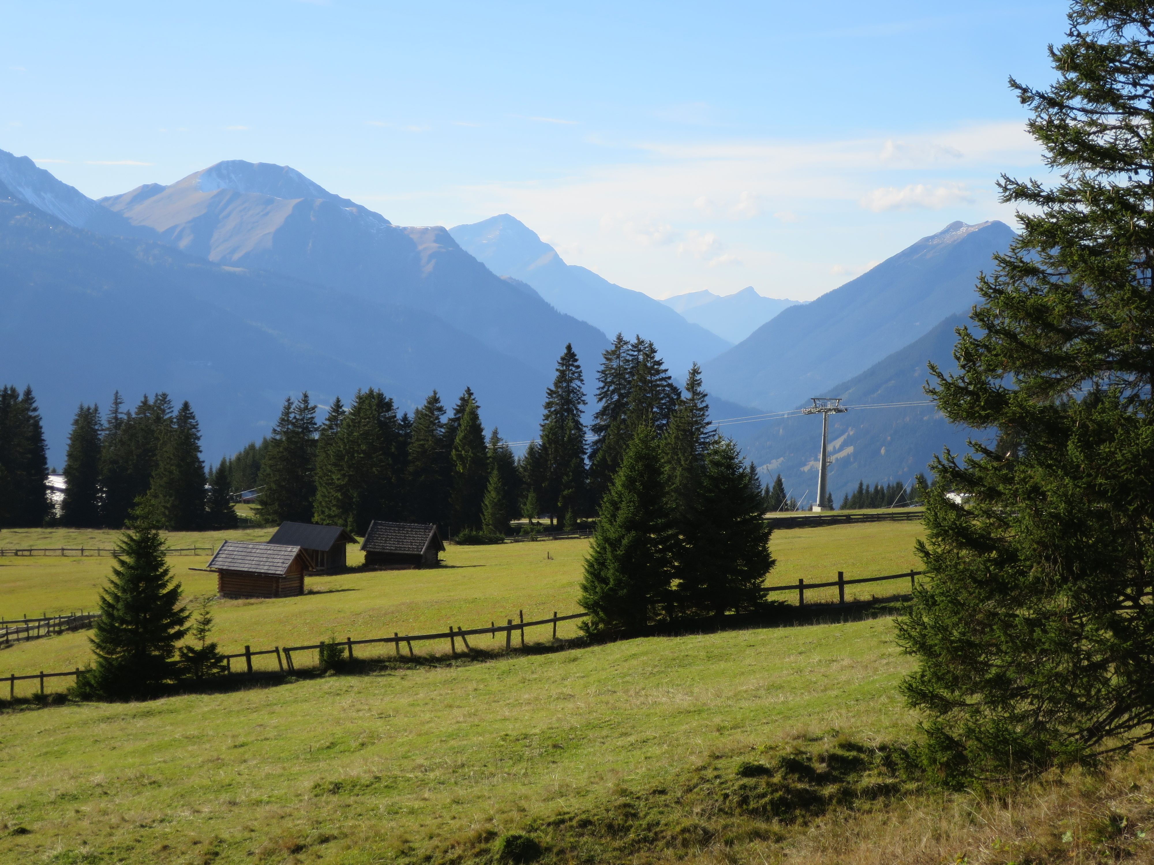 Ehrwalder Alm im Herbst